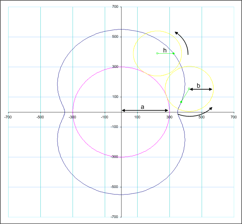 An epitrochoid.